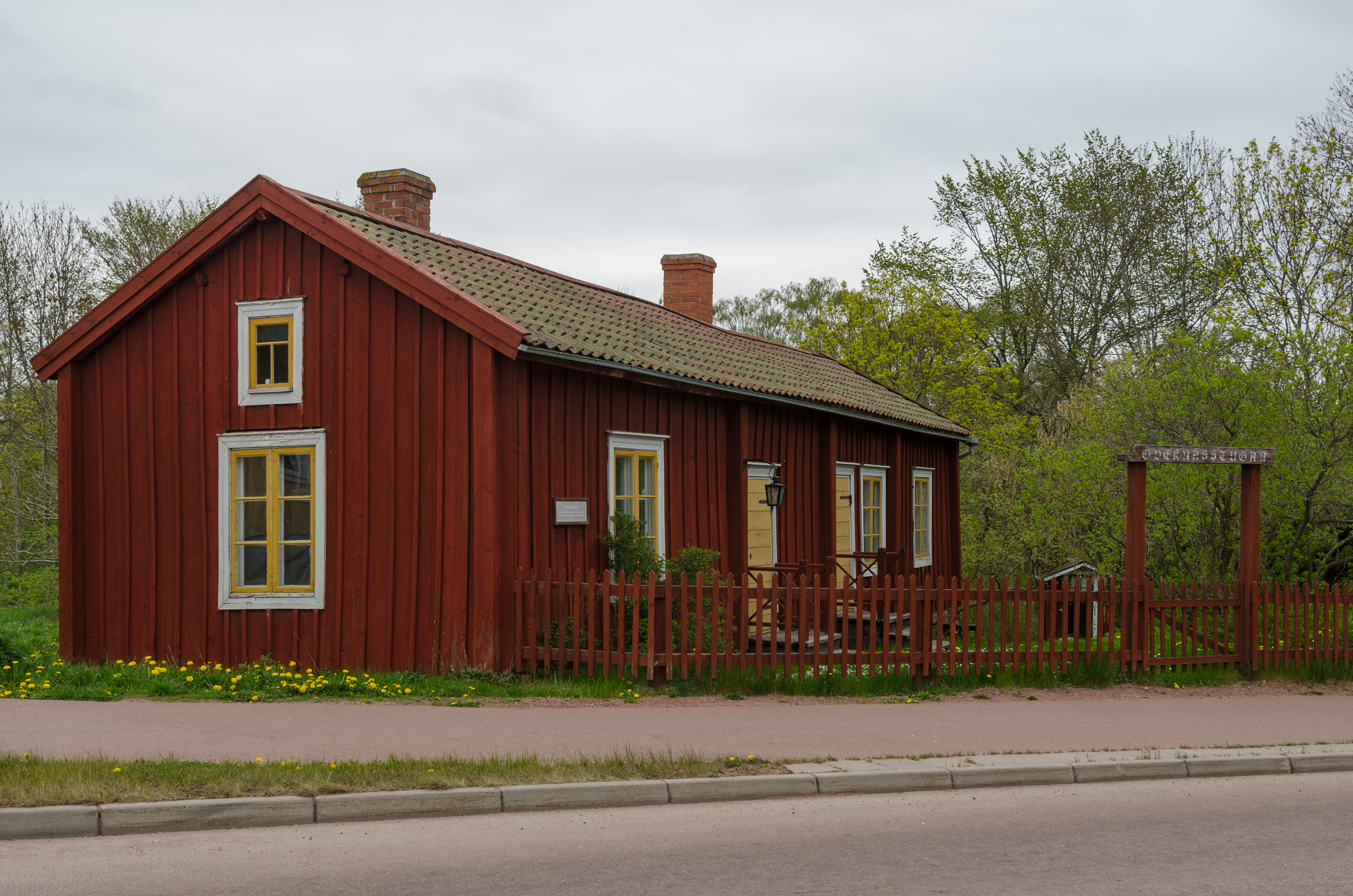 Övernässtugan (Övernäs cottage), the oldest building in Mariehamn and the only preserved building built before Mariehamn was founded in 1861 by Tsar Alexander II. Mariehamn was built around the old farm village of Övernäs.